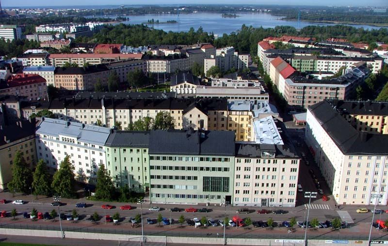 A view over a part of Töölö district in Helsinki, Finland, as seen from the tower of the Olympic Stadium.